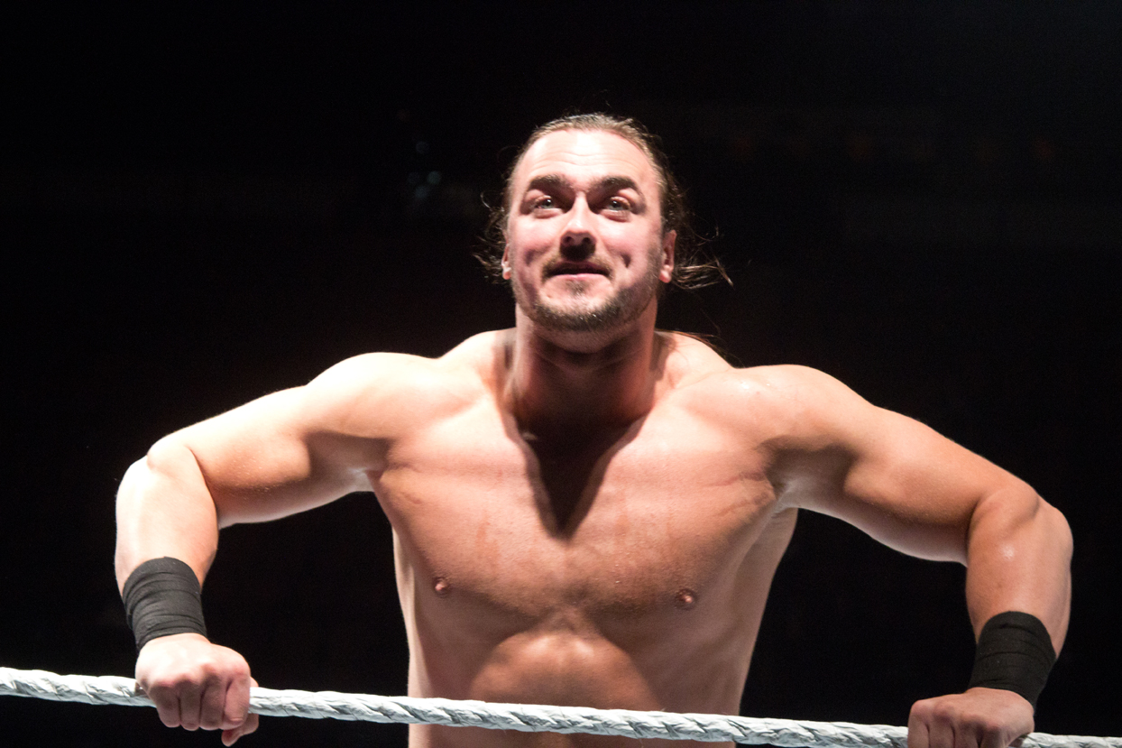 Drew McIntyre Taunts